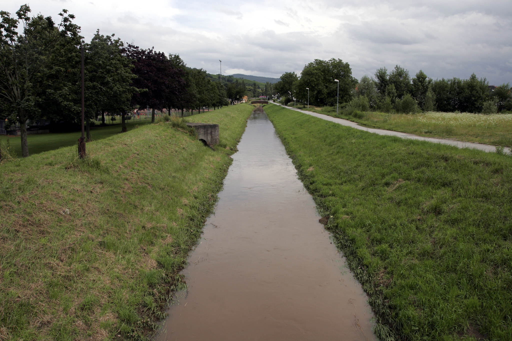 The Lauter (Winkelbach) creek in South-Hesse.